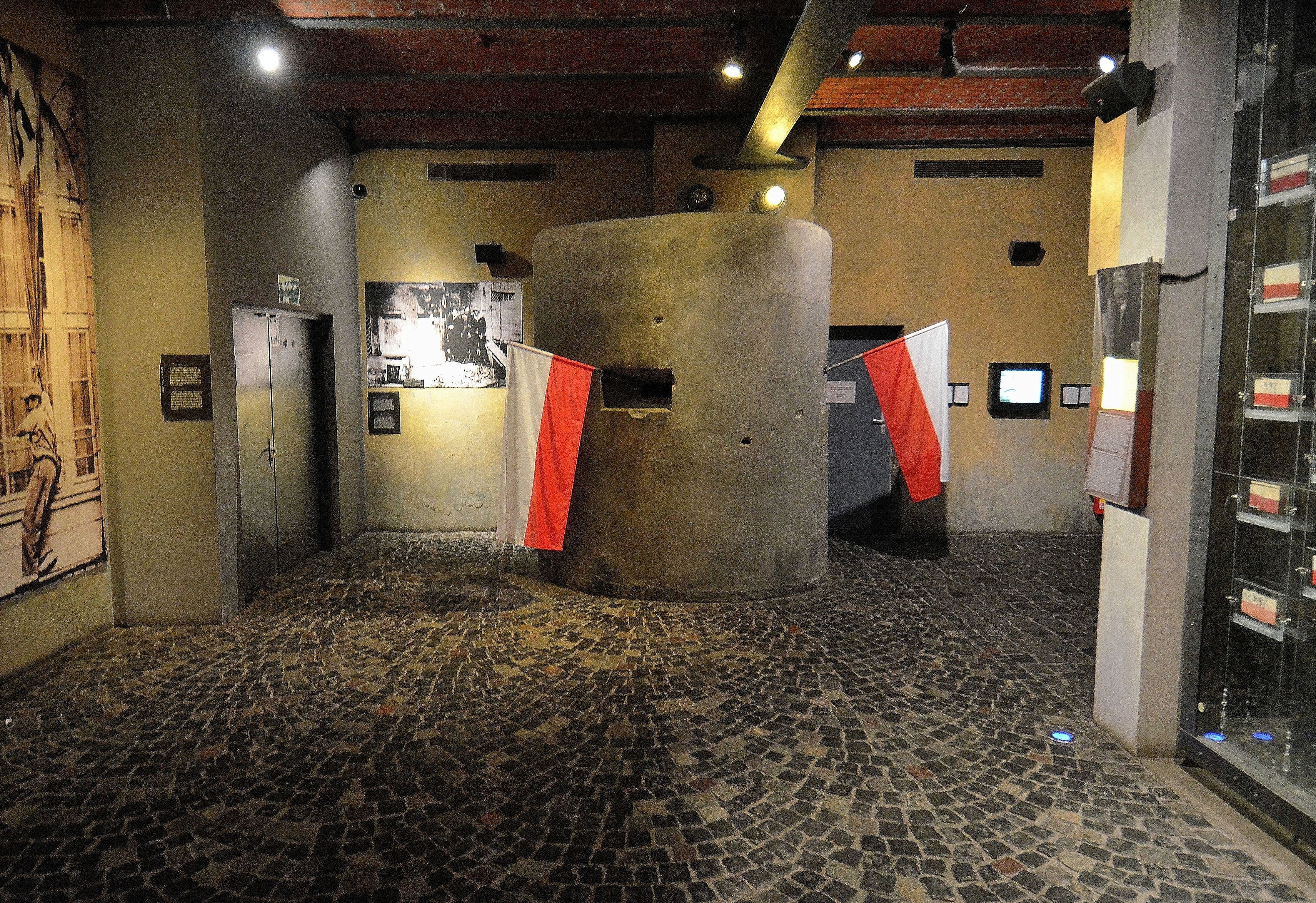 Warsaw Uprising Museum